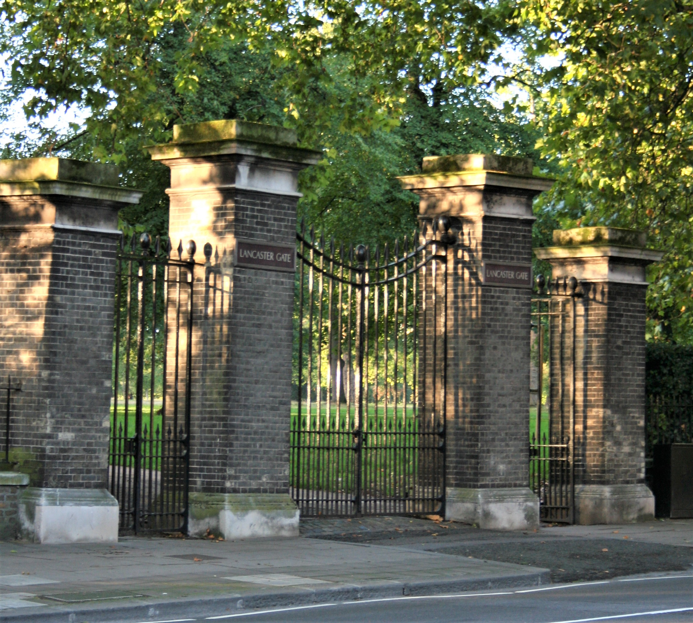 A view of Lancaster Gate in London